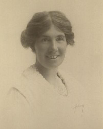 This photo of Ethel Dickenson appeared in The Distaff magazine in 1916. See also her Wikipedia article